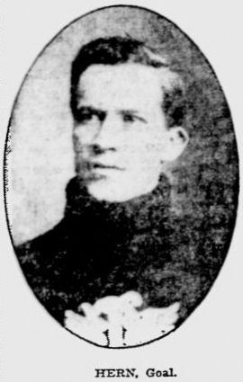 Ice hockey goaltender William "Riley" Hern with the Portage Lakes Hockey Club in the 1905–06 season.